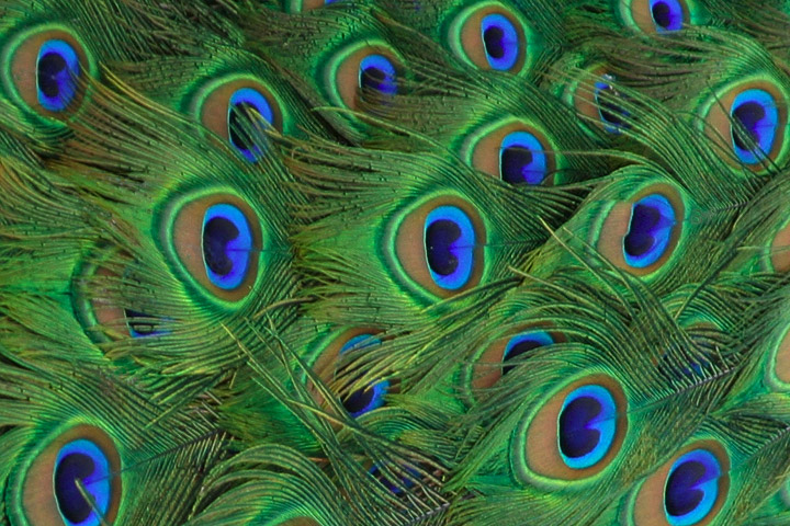 Lightmatter peacock tailfeathers closeup